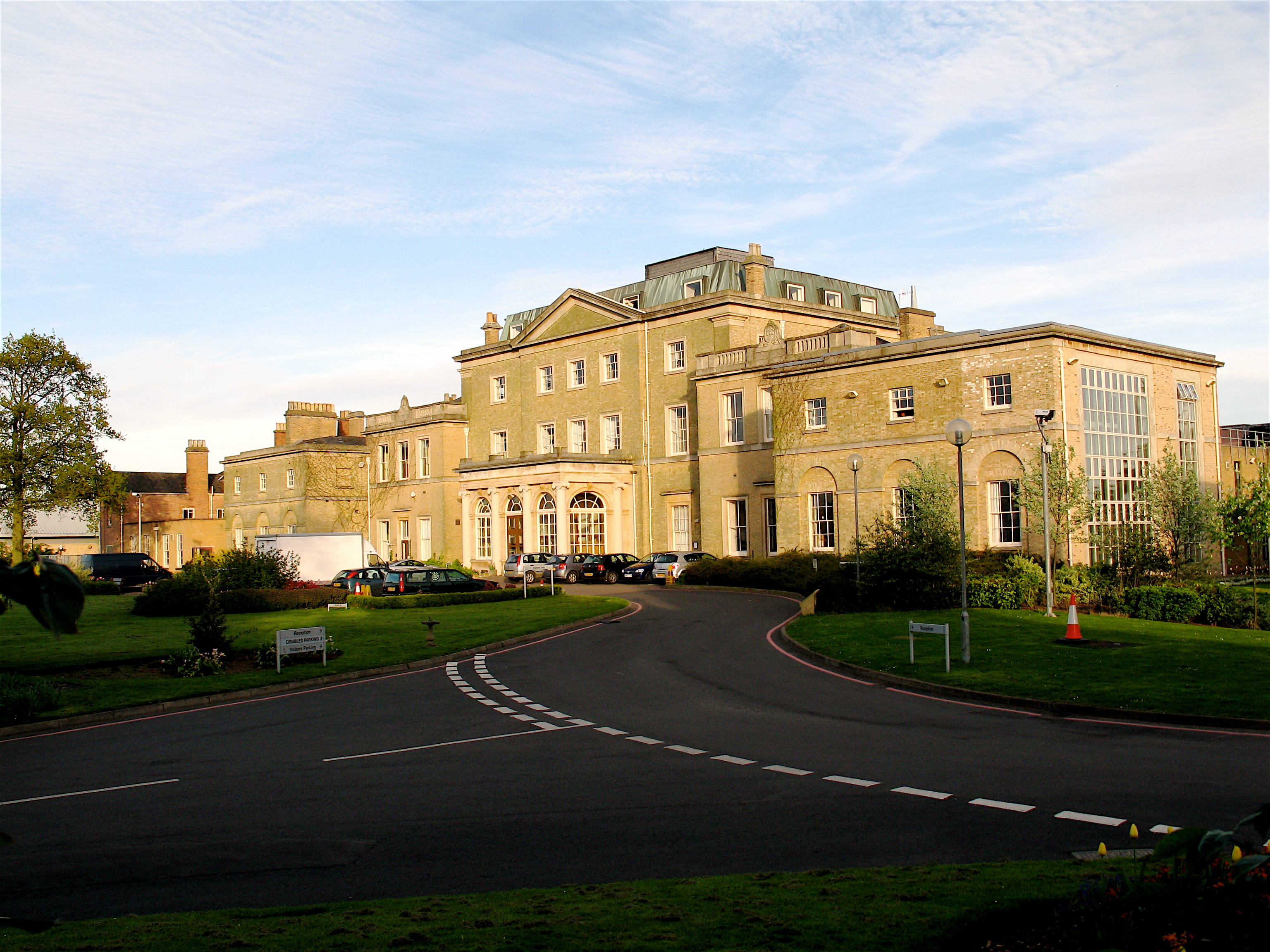 Hindlip Hall is in Worcestershire. The first major hall was built before 1575. It played a significant role in both the Babington and the Gunpowder plots (where it hid four people in priest holes, who were eventually executed). It was Humphrey Littleton who told the authorities that Edward Oldcorne was hiding here after he had been heard mass at Hindlip Hall.